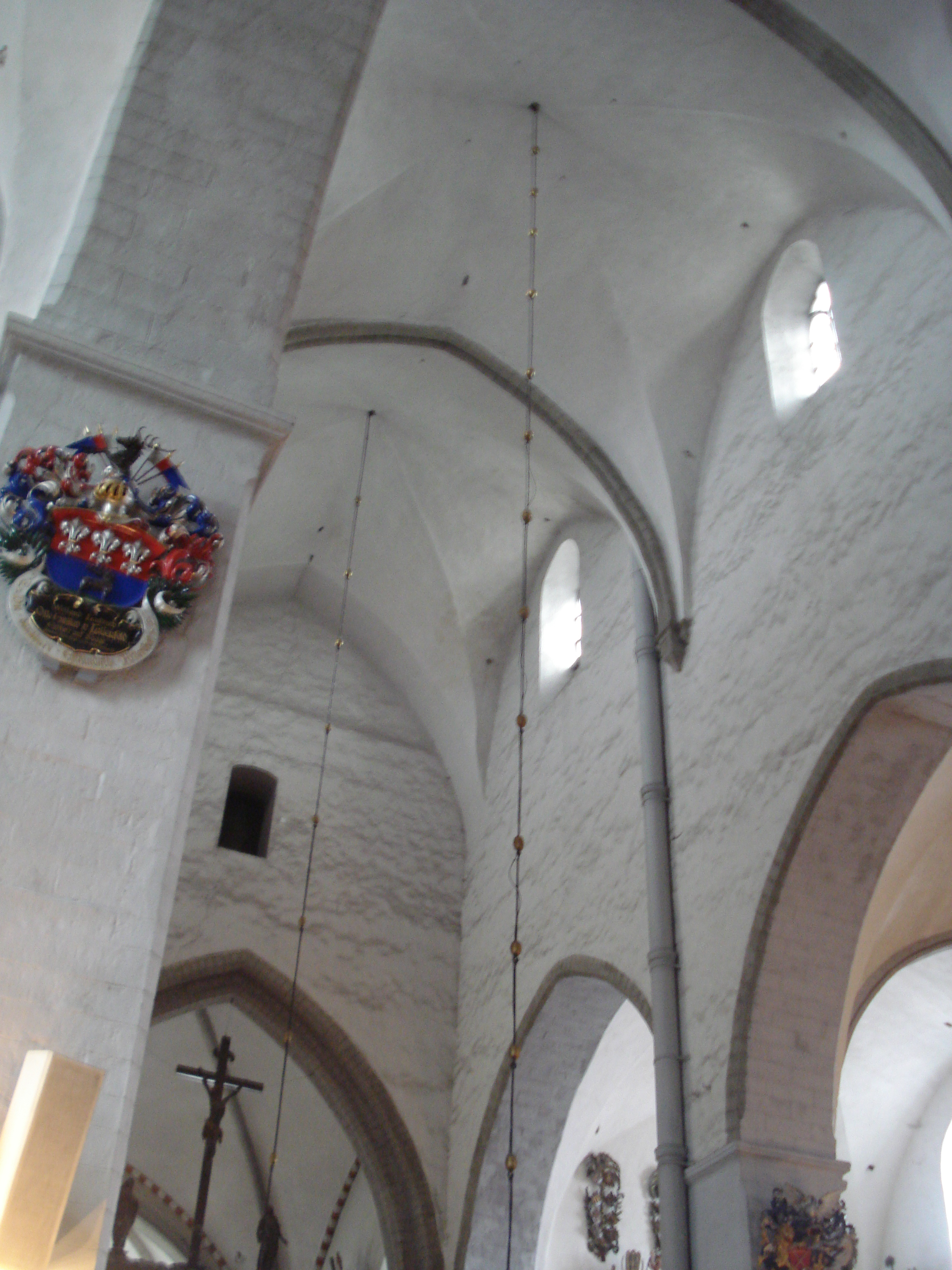 Lutheran Cathedral of Saint Mary in Tallinn. Toom-Kooli 6